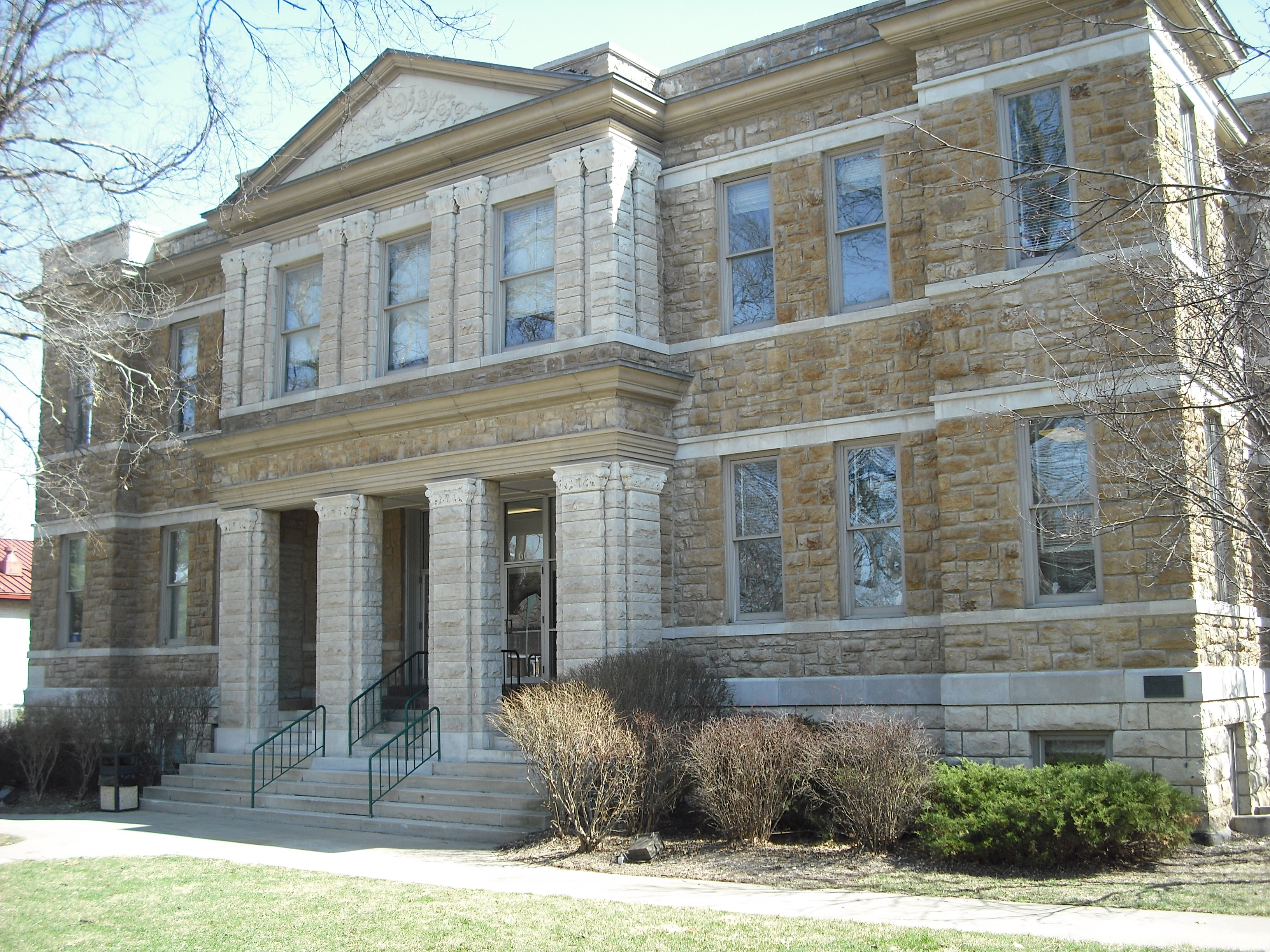 Case Library on Baker University campus in Baldwin City, Kansas. On NRHP.